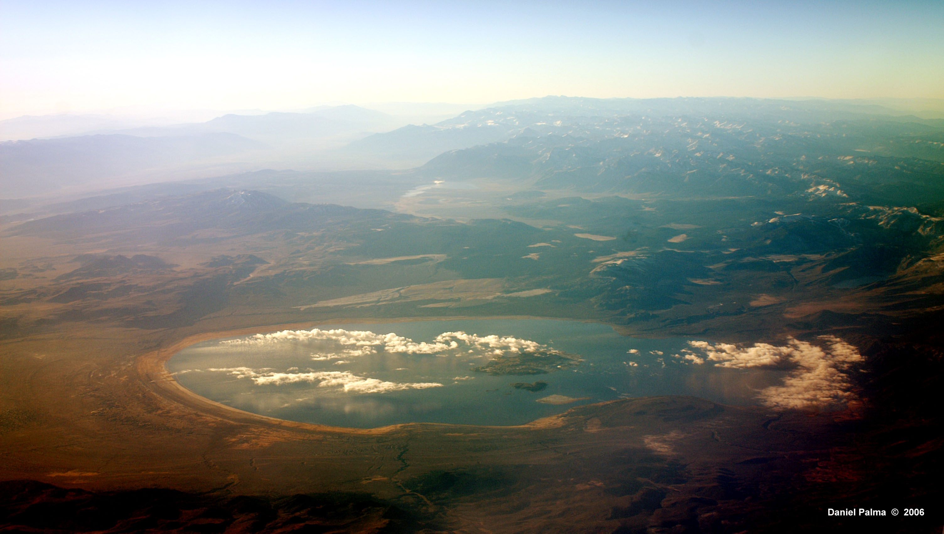 View of Mono Lake, California from the air at 32,000 feet towards the south. Vista del Lago Mono en California desde una altura de 32,000 pies viendo hacia el sur.